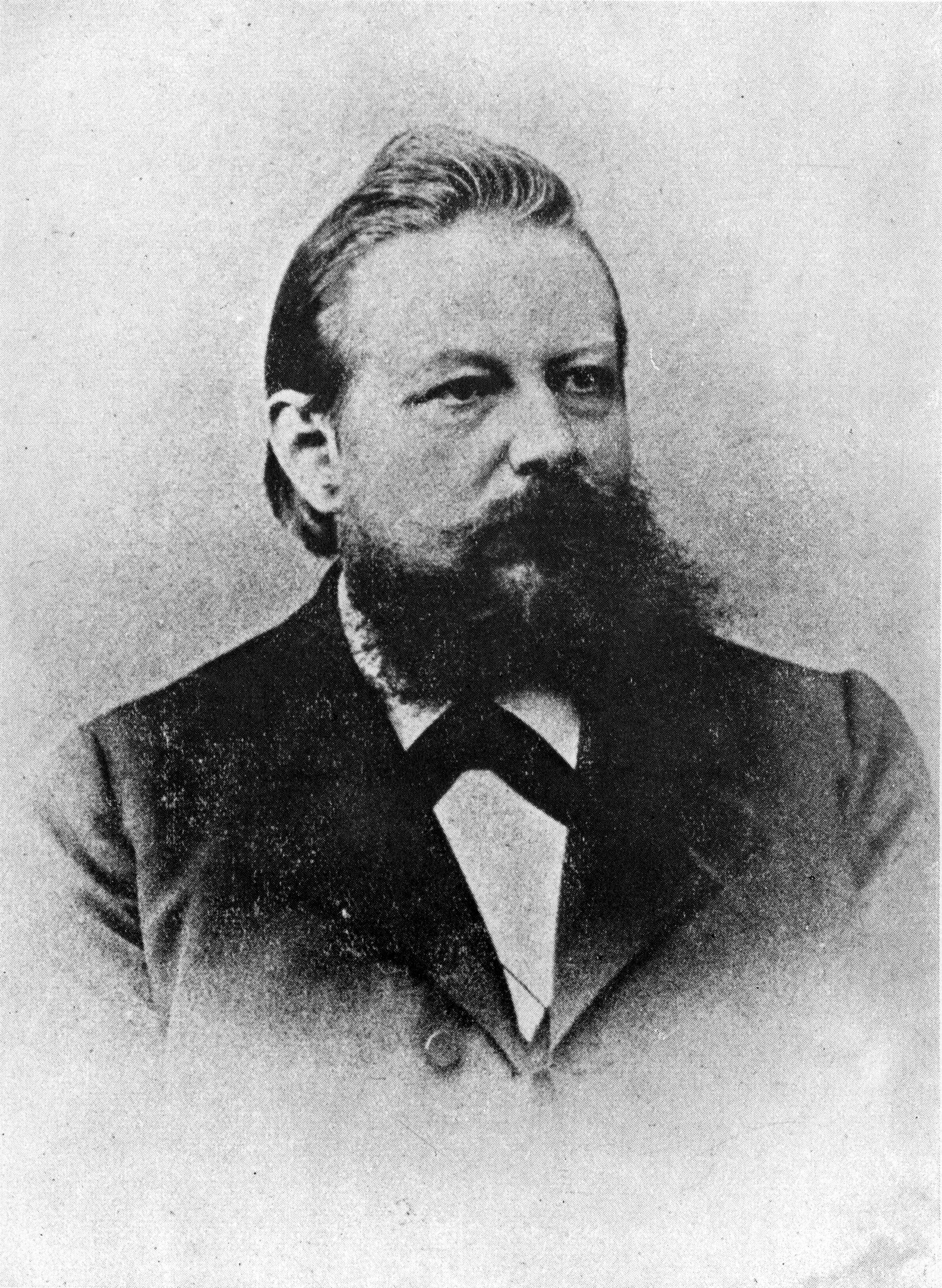 portrait of Wilhelm Windelband (1848-1915)